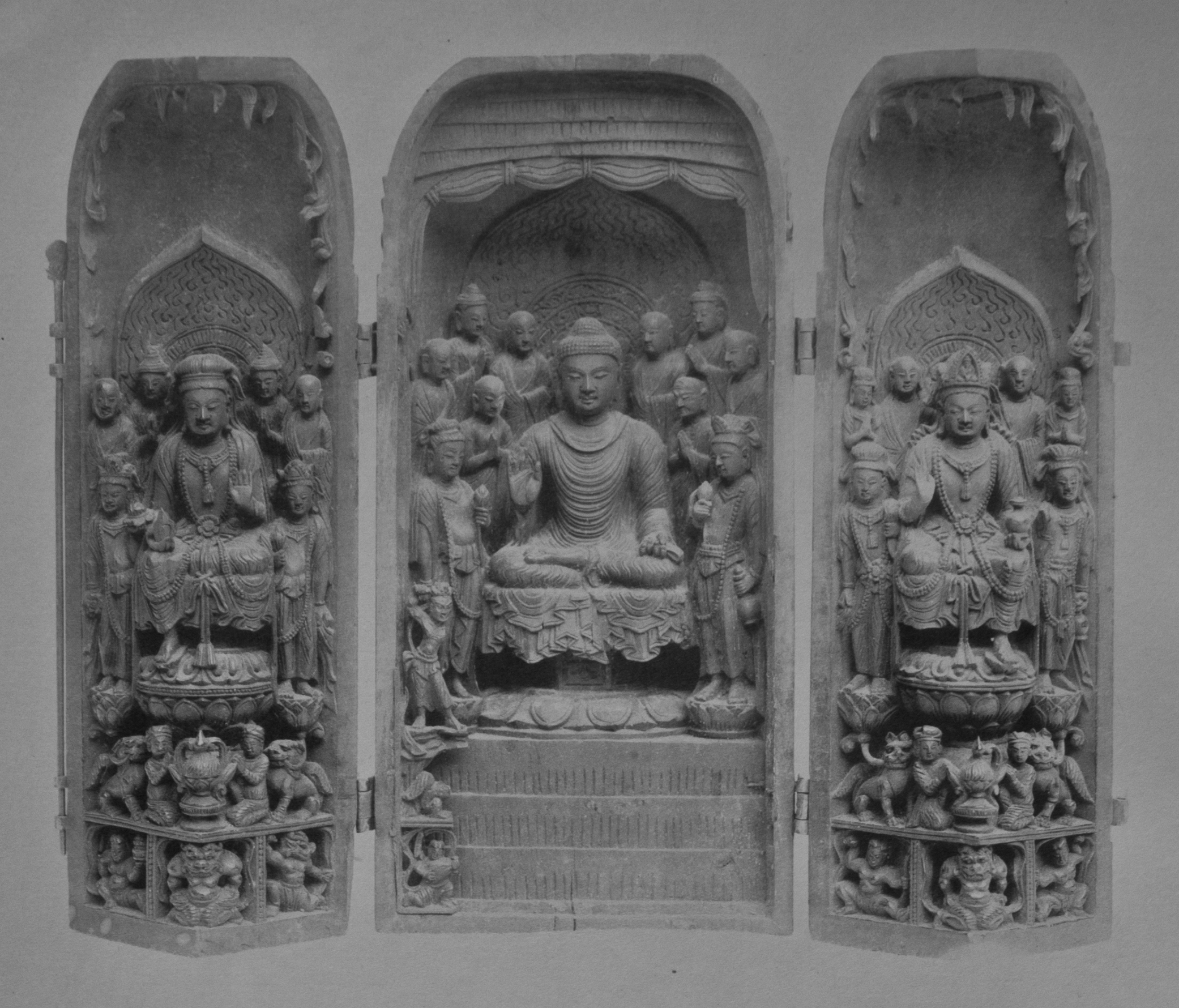 Kongobuji, Wakayama, Japan